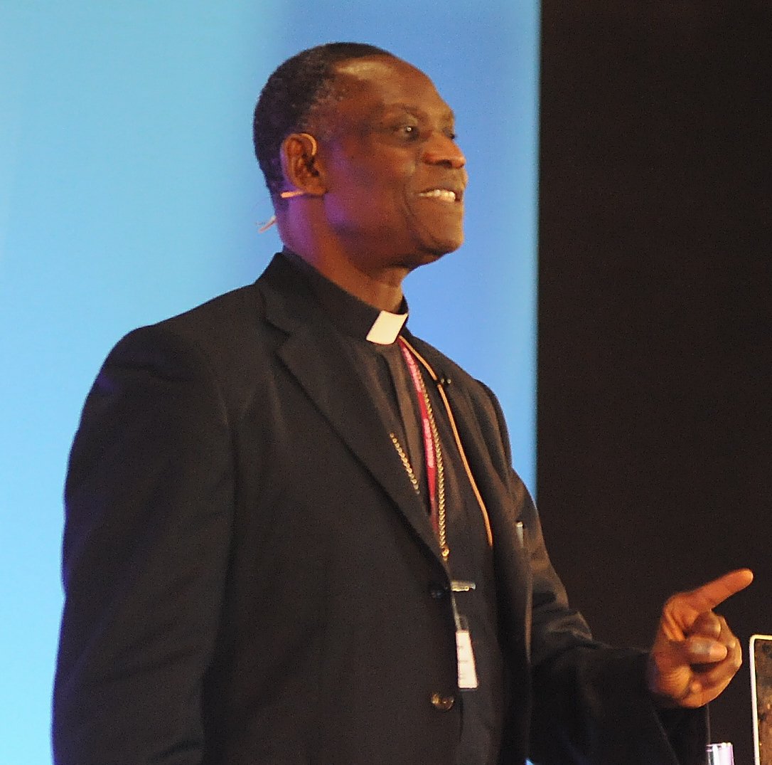 Archbishop Josiah Idowu-Fearon explained how at the heart of Islam and Christianity there are two related truths: that we are one humanity, and that we are from different races, religions and tribes. These differences are a gift, as they give us the chance to understand others, have empathy, and love. But in a world of hatred, terror and pain, where our differences can all too easily define us, isn’t valuing them easier said than done? The road to understanding is a hard one, but Archbishop Josiah explained that with meaningful dialogue and real commitment we can make real progress. As the newly-appointed Secretary General of the Anglican Communion, Archbishop Josiah Idowu-Fearon serves 85 million Christians worldwide. He was formerly the Archbishop of Kaduna in northern Nigeria, a volatile Muslim-majority city where tensions between Christians and Muslims run high. He has a Masters degree in Islamic Theology and established the Centre for Islamic Studies at the height Kaduna’s religious riots in 2000.